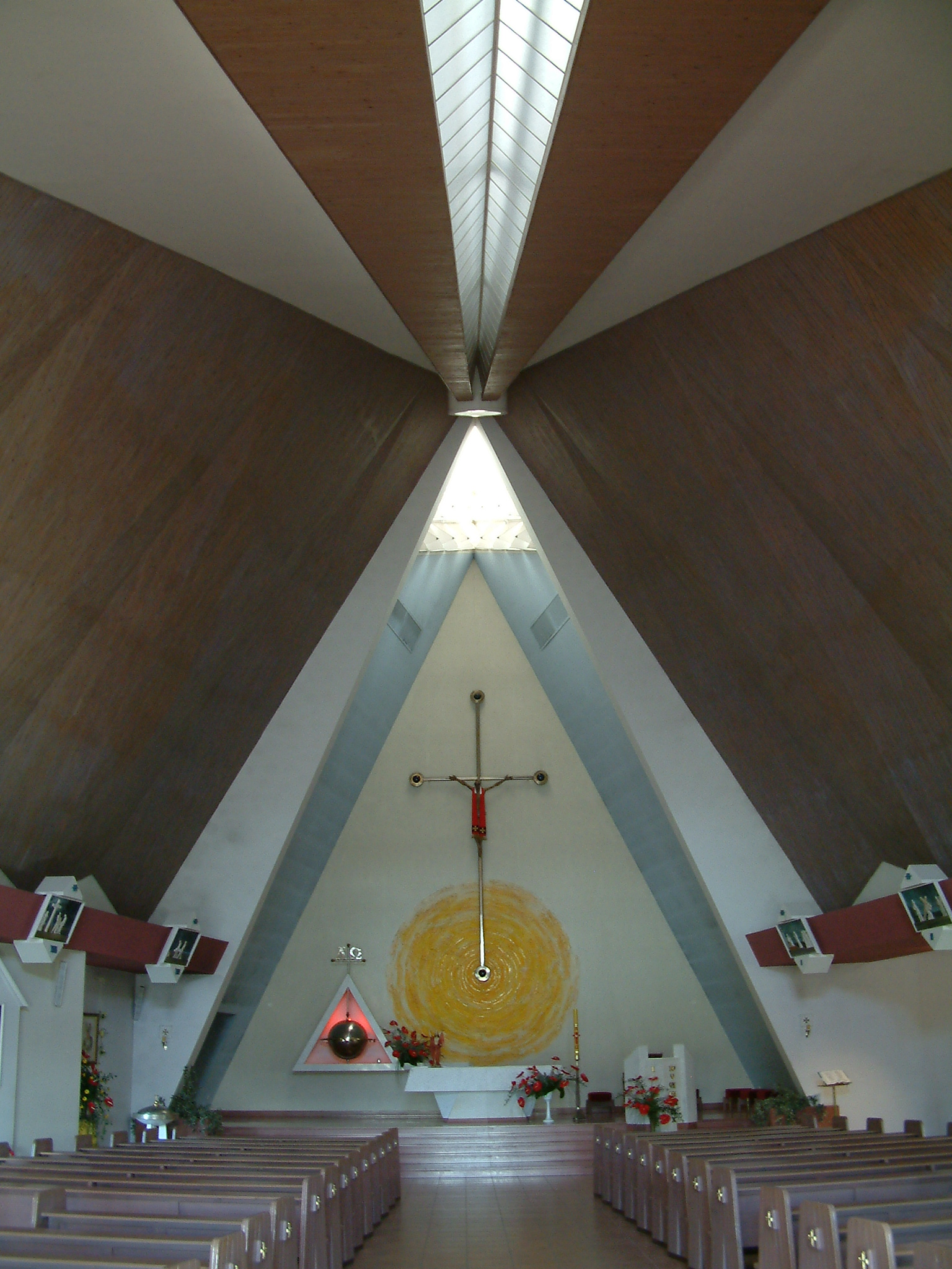 Church of St. George in Poznań - interior